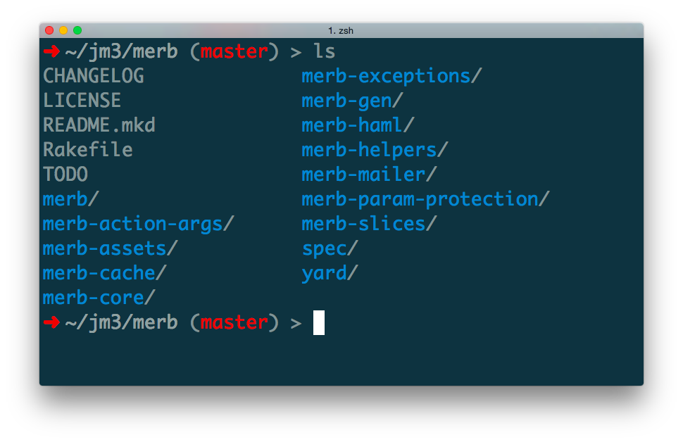 screenshot of a default checkout of the Merb web framework, containing the basic Merb modules: merb-core, merb-action-args, merb-assets, merb-slices, merb-cache, merb-gen, merb-haml, merb-helpers, merb-mailer, merb-param-protection, and merb-exceptions.